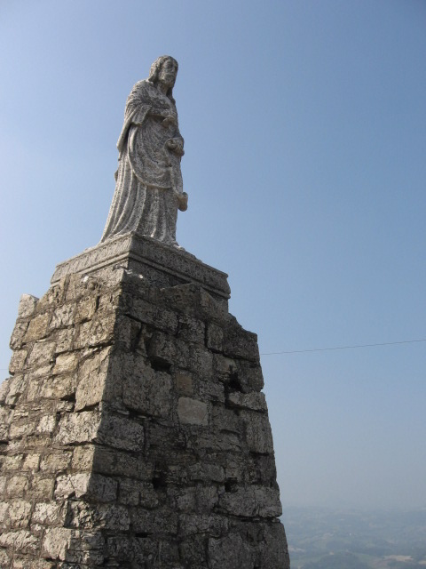 The statue on the top of the Evangelo Mount: the highest relief of the Municipality of Scandiano (RE - Italy)